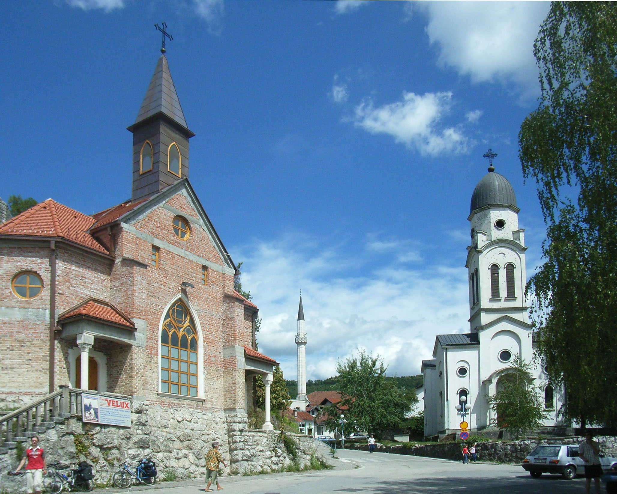 Catholic church, Mosque and Serbian Orthodox Church in Bosanska Krupa, Bosnia and HerzegovinaRomână: O biserică catolică, una ortodoxă și o moschee în Bosanska Krupa (Bosnia și Herțegovina)